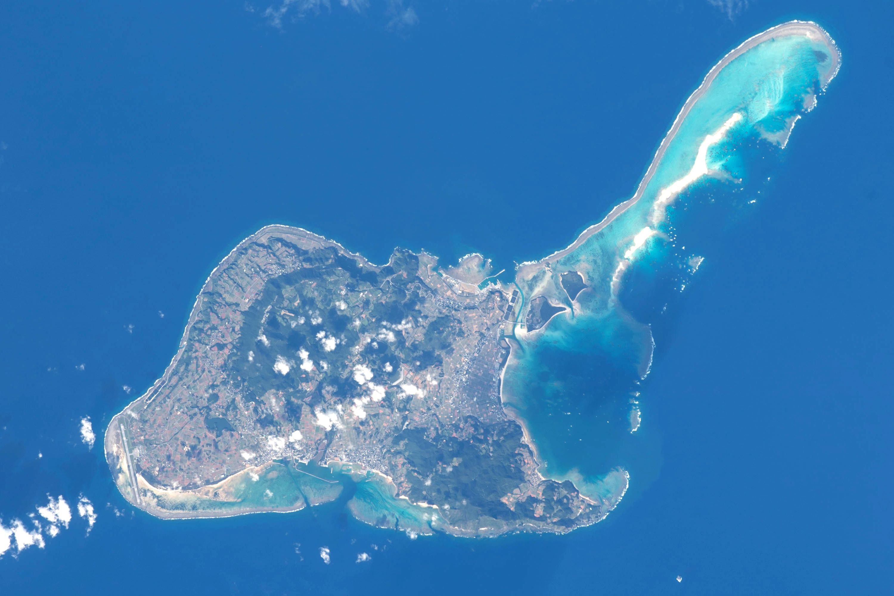 Kume-jima Island, Okinawa Islands, Okinawa Prefecture, Japan.